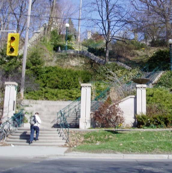 Baldwin Steps